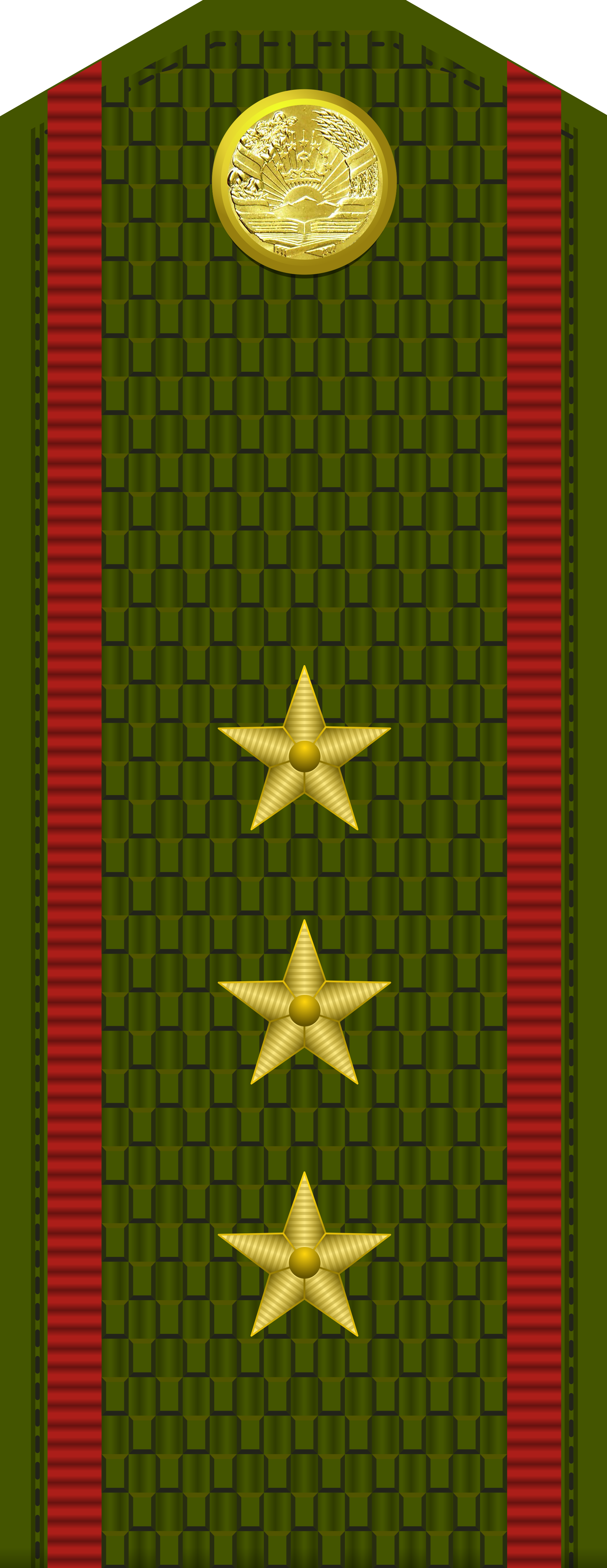 Тоҷикӣ: Rank insignia of Senior Ensign for the Tajikistan Army